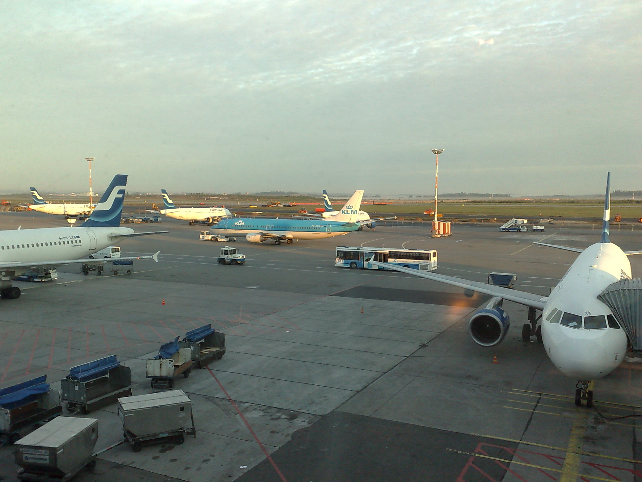 A morning at Helsinki-Vantaa Airport. Tail of a Finnair Airbus A320 aircraft (OH-LXD) on the left, a KLM Boeing 737 on the middle, and a Finnair Airbus A320 (OH-LXA) on the right. Finnair Airbus A320 series aircraft on the background.